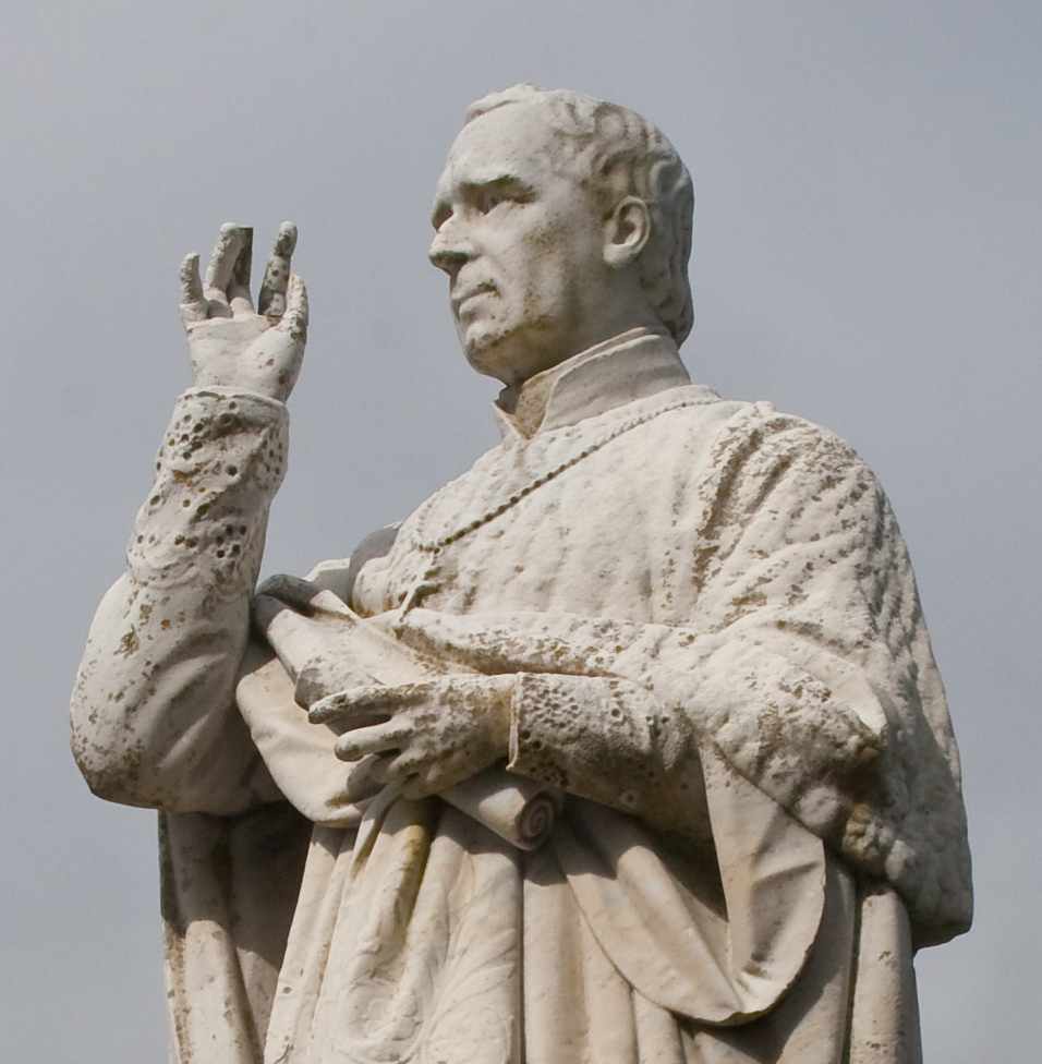 Tuam, County Galway, Ireland Detail of marble statue of Archbishop John MacHale on the grounds of the Cathedral of the Assumption. Sculpted by Sir Thomas Farrell (1827–1900) in Dublin.